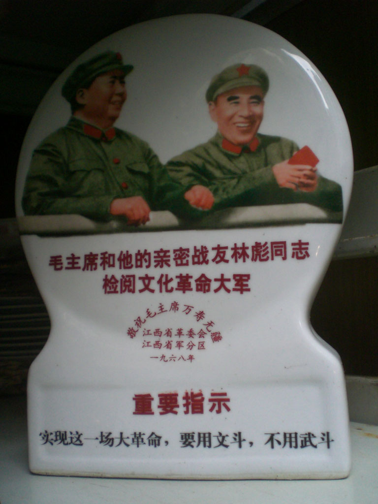 A second-hand product on sale at a market in Hong Kong.